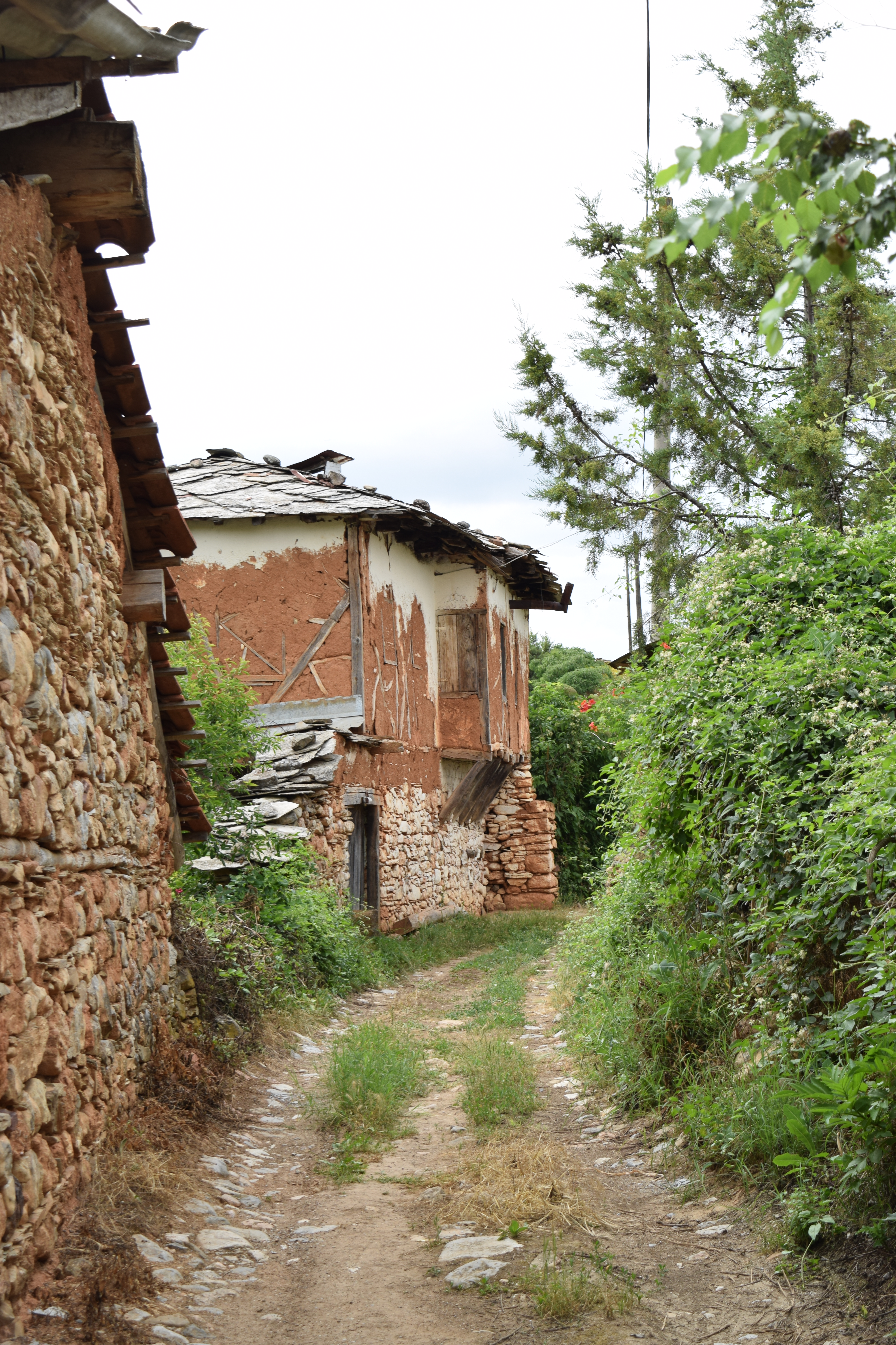 Street in the village Vojnica